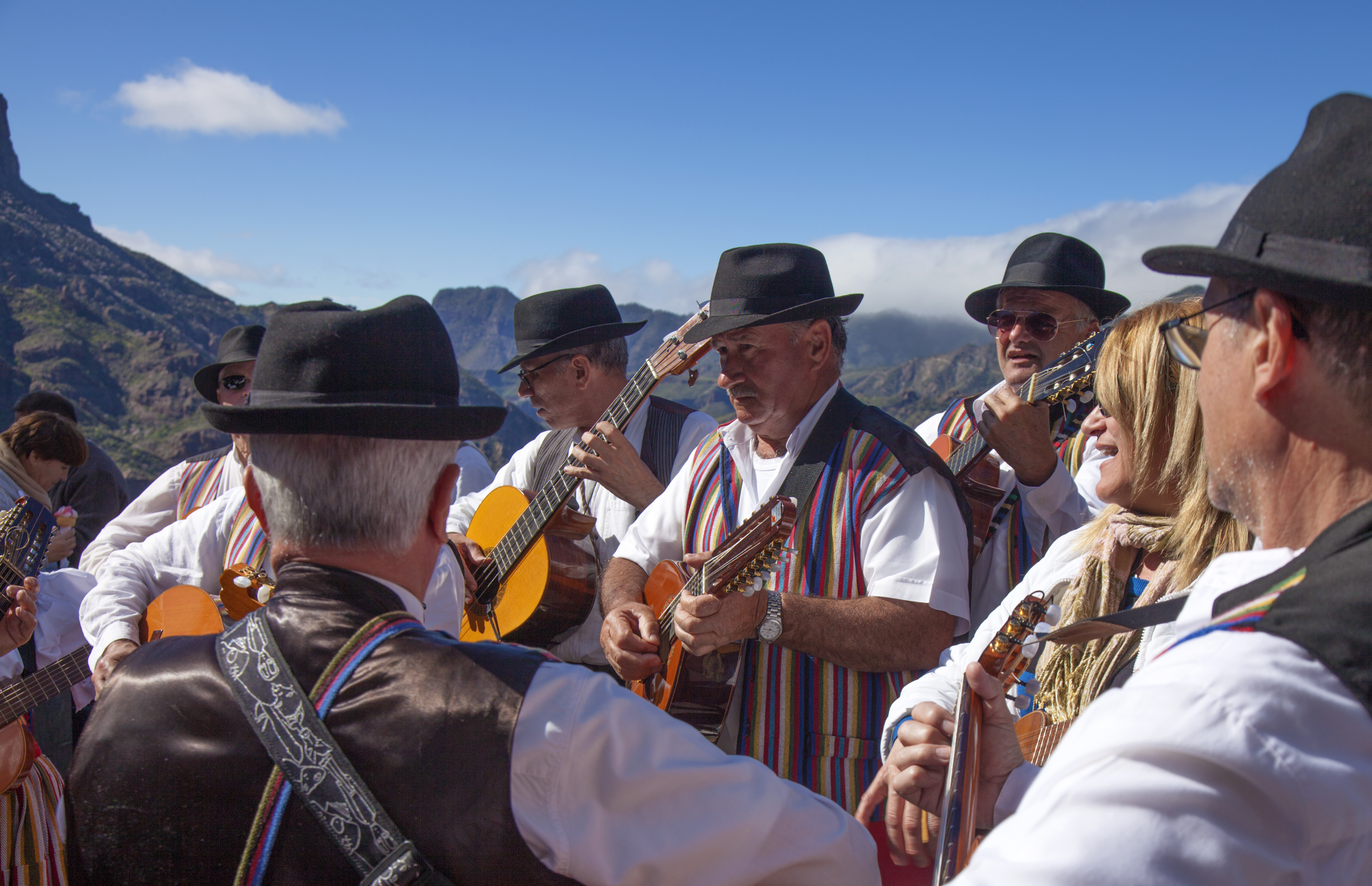 This is a photography of a Folklore festival in Spain (Wikidata id Q23661684).